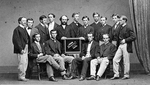 Photograph of the 1866 delegation of Scroll and Key senior society, Yale College, New Haven, Connecticut. Photograph courtesy of the Yale University Manuscripts & Archives Digital Images Database. Retouched by MarmadukePercy.